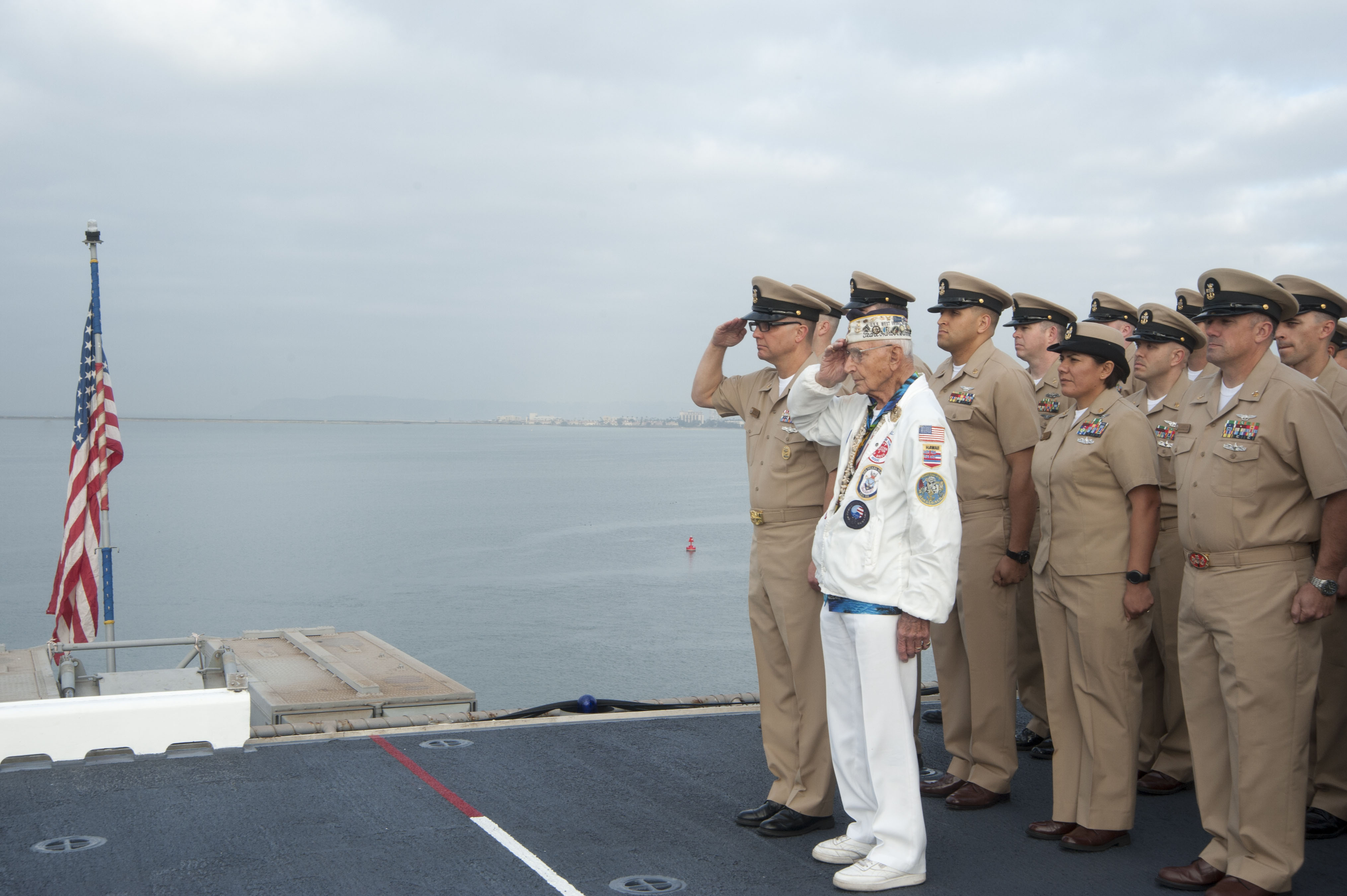 SAN DIEGO (April 1, 2016) Stu Hedley, a retired Navy chief petty officer, World War II veteran and Pearl Harbor survivor, salutes the ensign during colors with the Chief's Mess aboard the amphibious assault ship USS America (LHA 6). Hedley came aboard to share his story and celebrate the 123rd chief petty officer birthday. America is an aviation centric amphibious assault ship that supports Marine aviation requirements, from small-scale contingency operations of an expeditionary strike group, to forcible entry missions in major theaters of war. (U.S. Navy photo by Mass Communication Specialist 1st Class John Scorza/Released)160401-N-YB590-193 Join the conversation: navylive.dodlive.mil